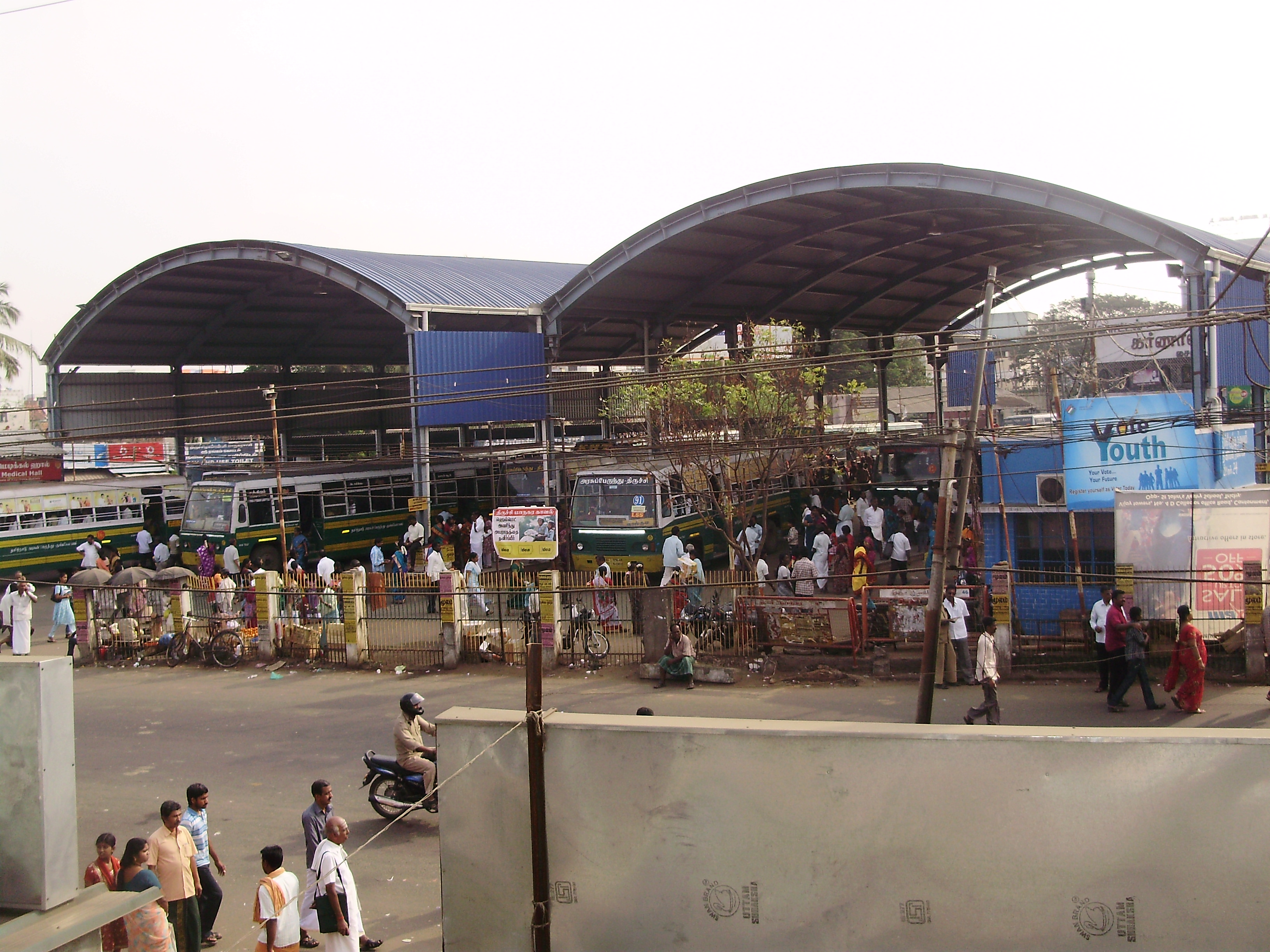 Chatram Bus Stand a.k.a Main Guard Gate Bus Stand, Trichy